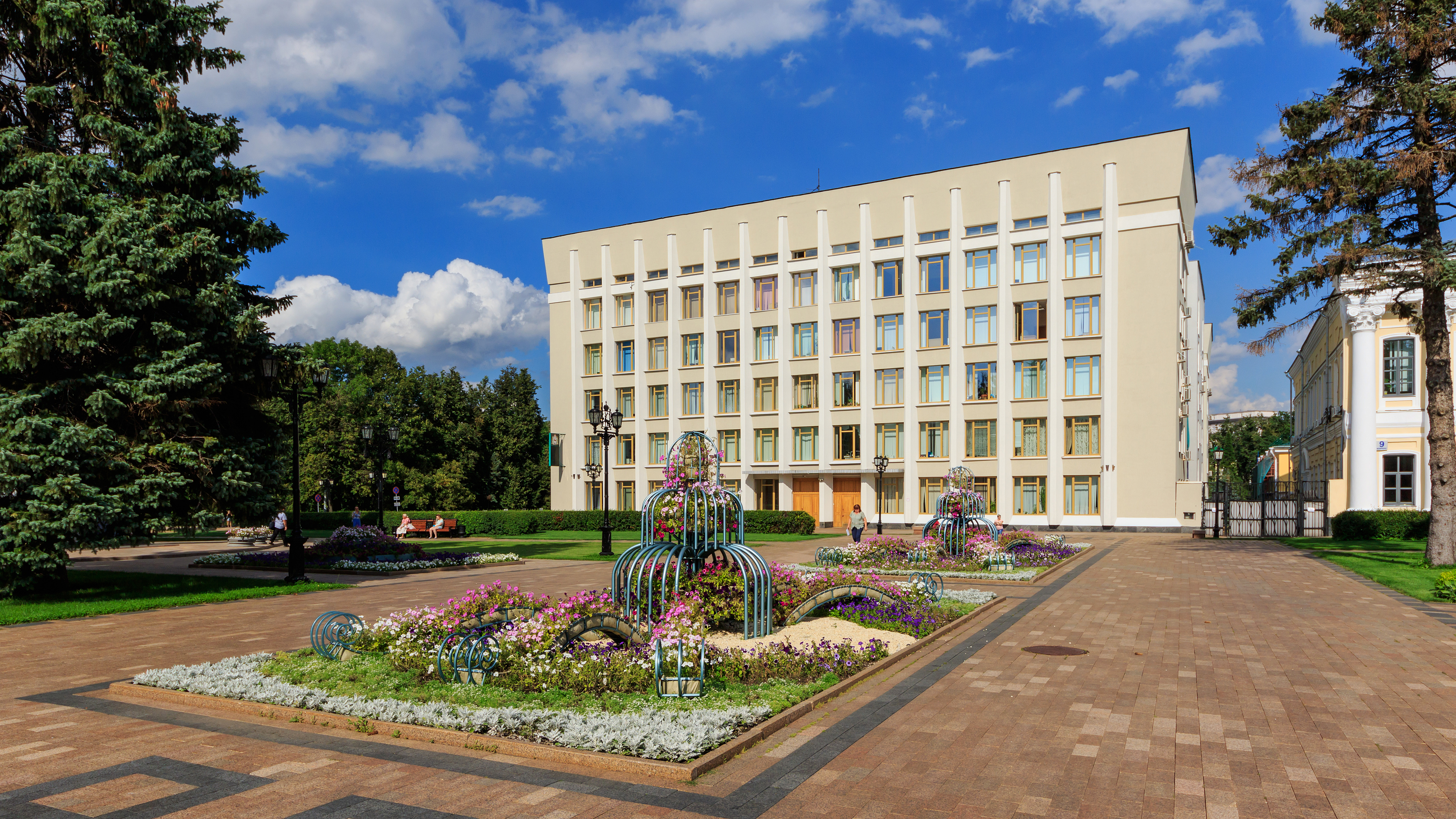 A government building in the Kremlin in Nizhny Novgorod, Russia